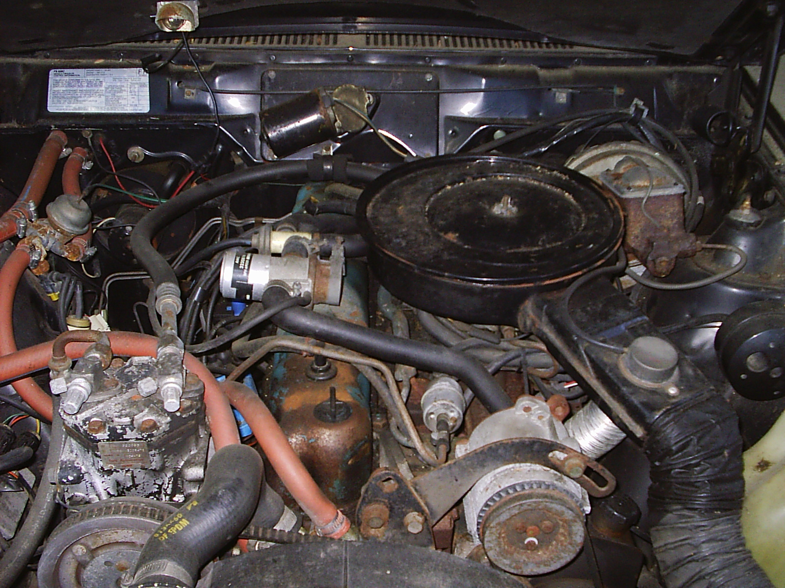 Engine bay of 1980 AMC Spirit AMX with the standard 258 cubic inch (4.2 L) straight six engine that has had no repairs (other than a water pump) and with all emissions controls operational after 150,000 miles. (American Motors Corporation)